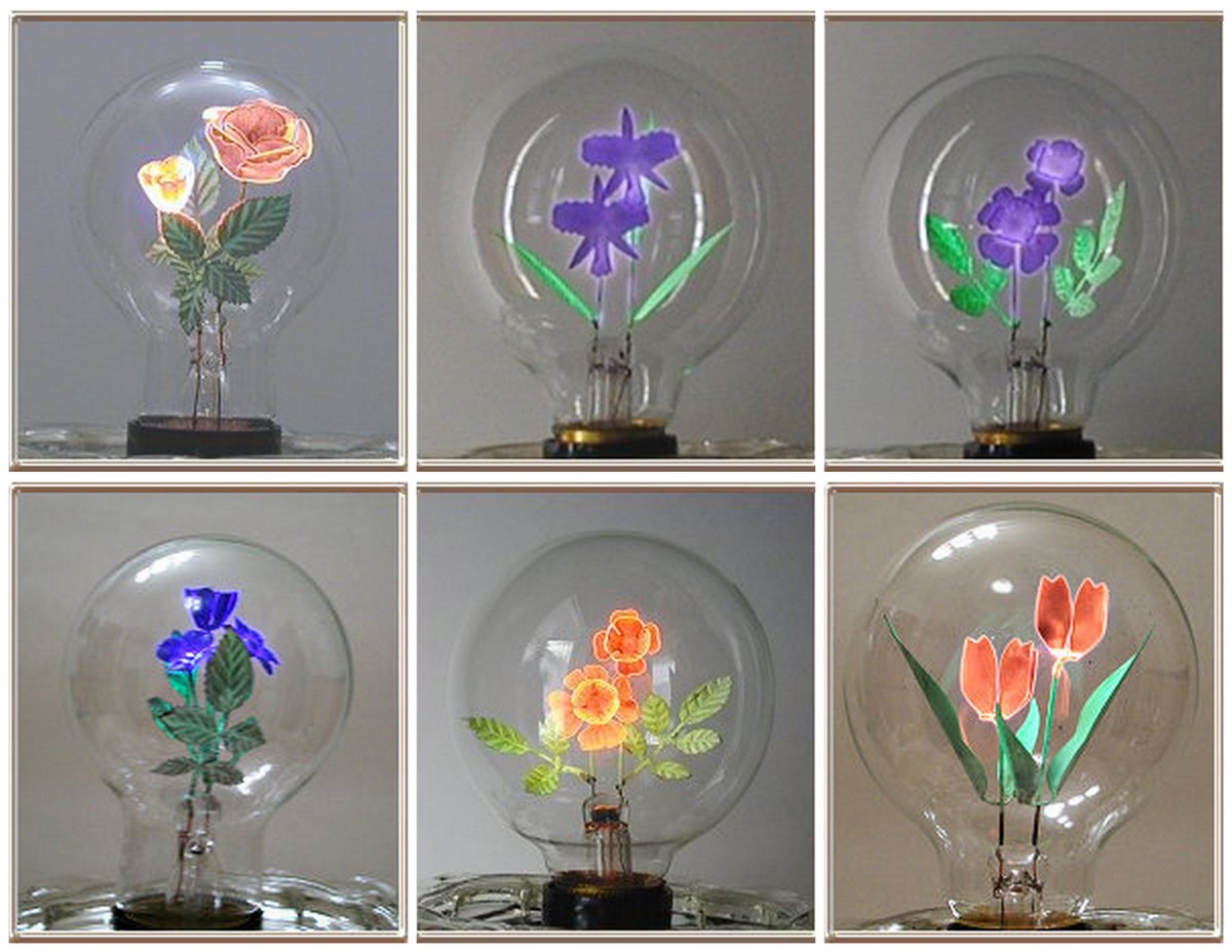 Collage of Aerolux bulbs